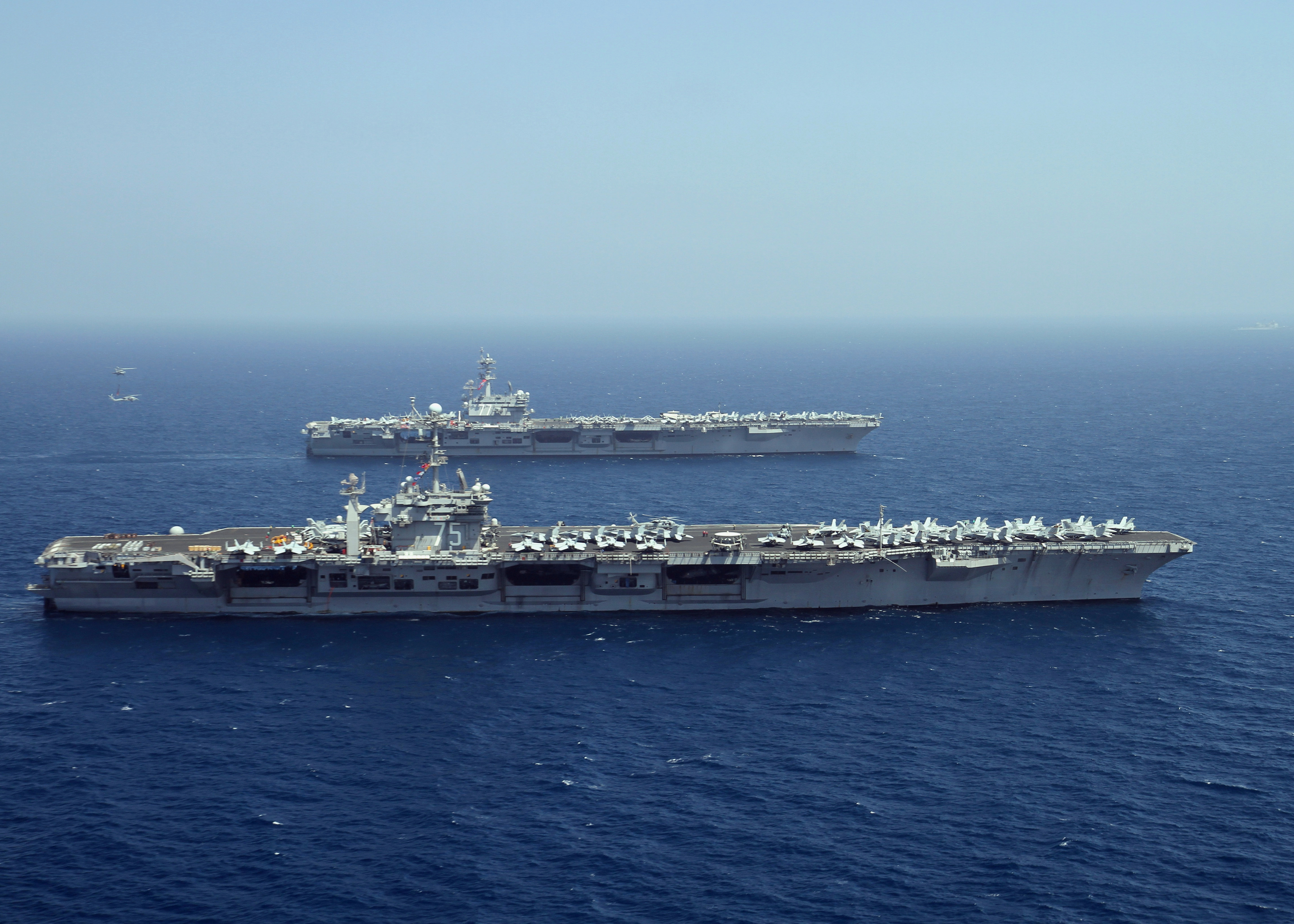 The U.S. Navy Nimitz-class aircraft carriers USS George H.W. Bush (CVN-77) and USS Harry S. Truman (CVN-75) transit during a turnover of responsibility in the Arabian Sea. George H.W. Bush was taking over support of maritime security operations and theater security cooperation efforts in the U.S. 5th Fleet area of responsibility.